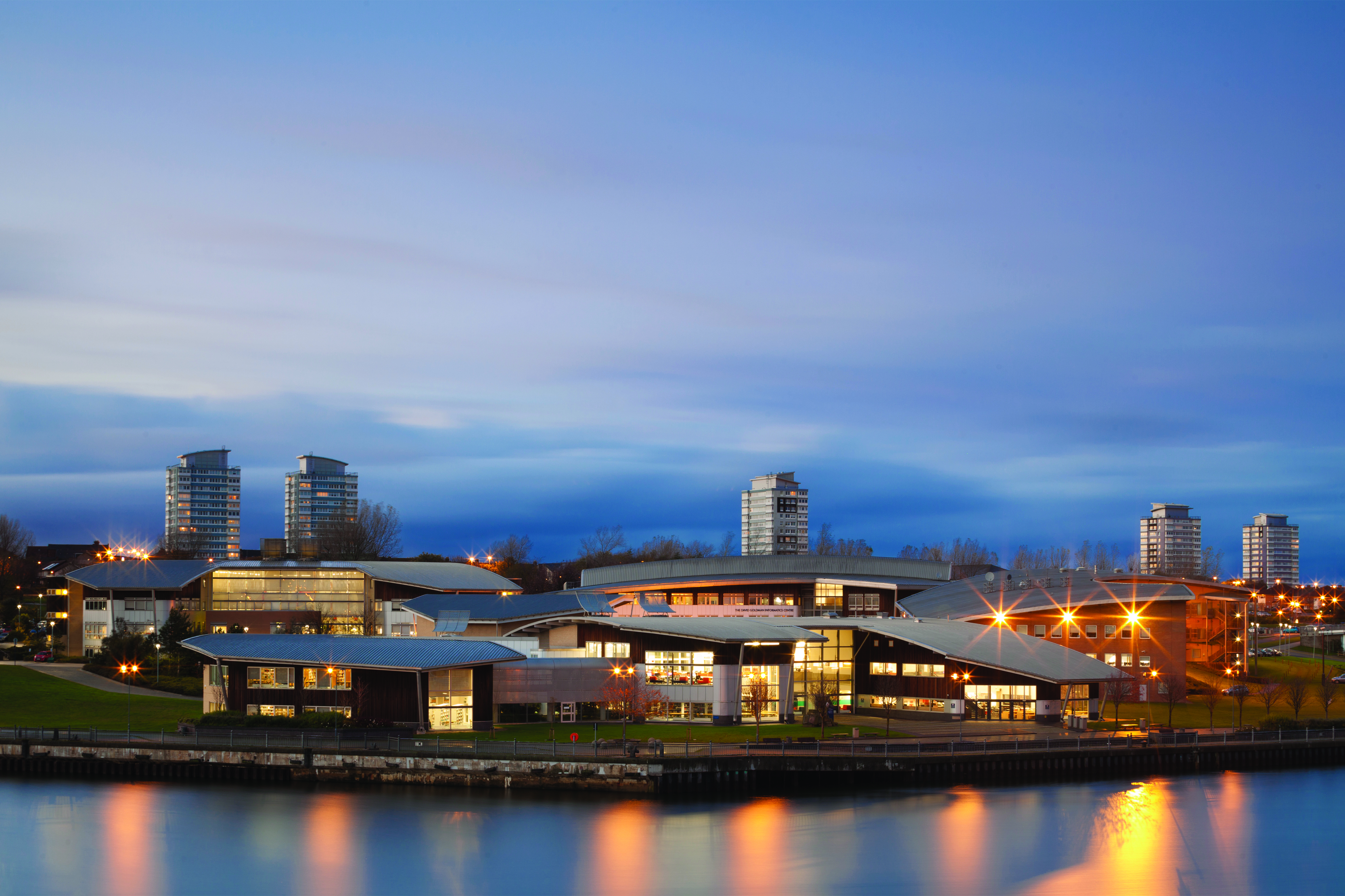 St. Peter's Campus